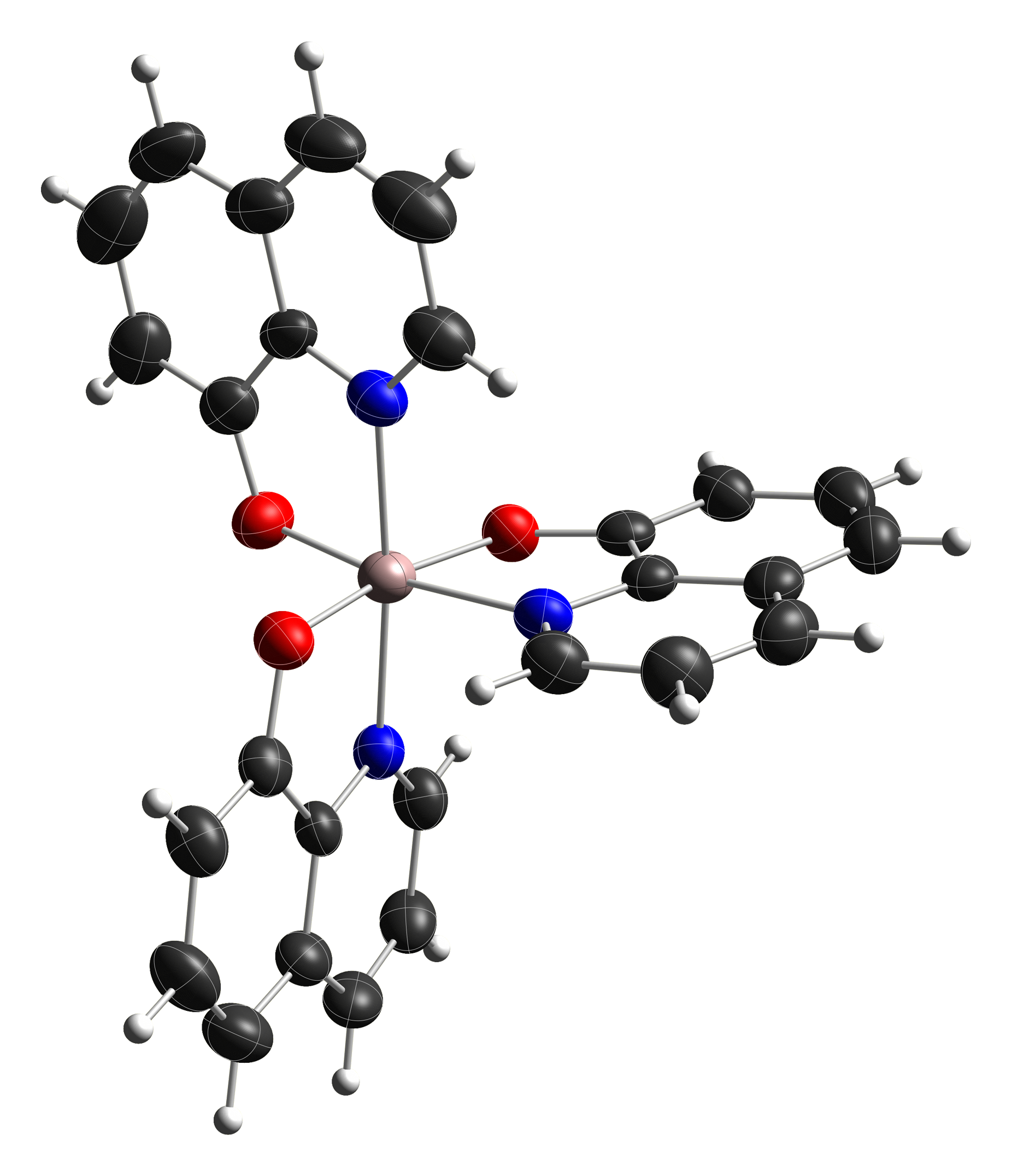 Thermal ellipsoid model of the mer isomer of the tris(8-hydroxyquinolinato)aluminium complex, [Al(C9H6NO)3], as found in the crystal structure. Colour code: Aluminium, Al: pink-brown Carbon, C: black Hydrogen, H: white Nitrogen, N: blue Oxygen, O: red Crystal structure data from J. Am. Chem. Soc. (2000) 122, 5147-5157. Image generated in CrystalMaker 8.3.